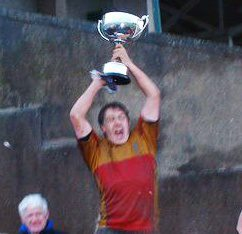 Senior Development Cup Winners St Fintans